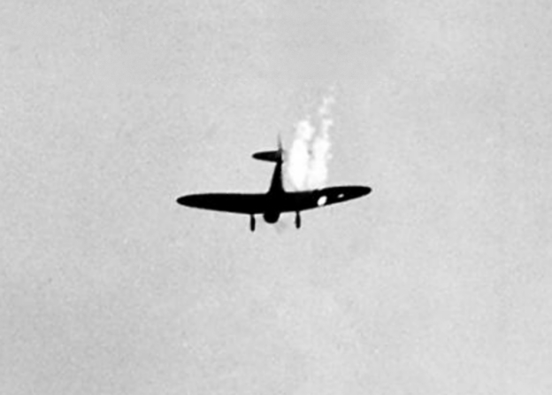 A Japanese Aichi D3A1 "Val" dive bomber being shot down over Pearl Harbor, Hawaii, on 7 December 1941.